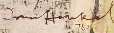 Signature of German-South African painter Irmin Henkel